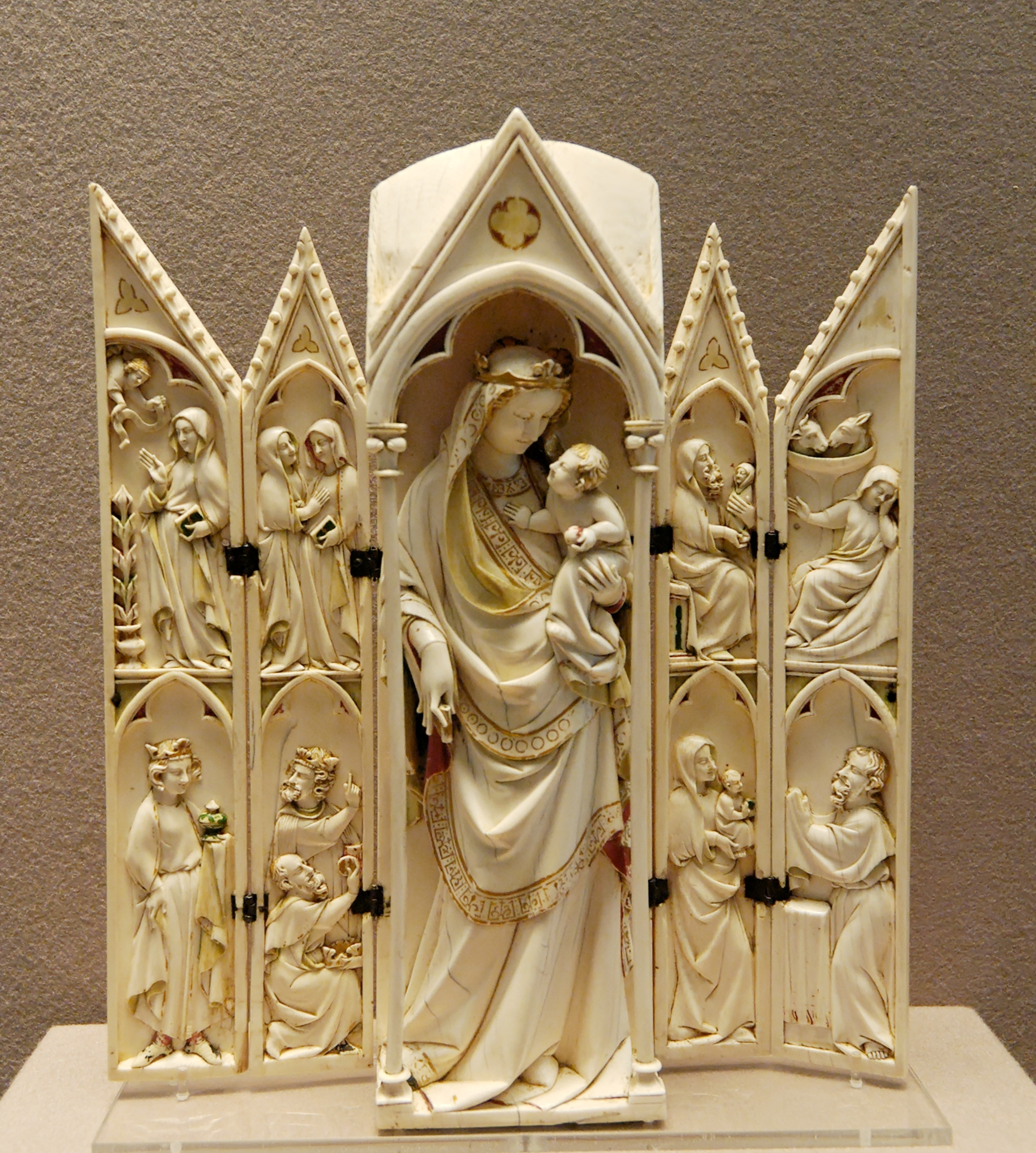 Tabernacle: Annunciation, Visitation, Nativity, Adoration of the magi, Presentation in the Temple.